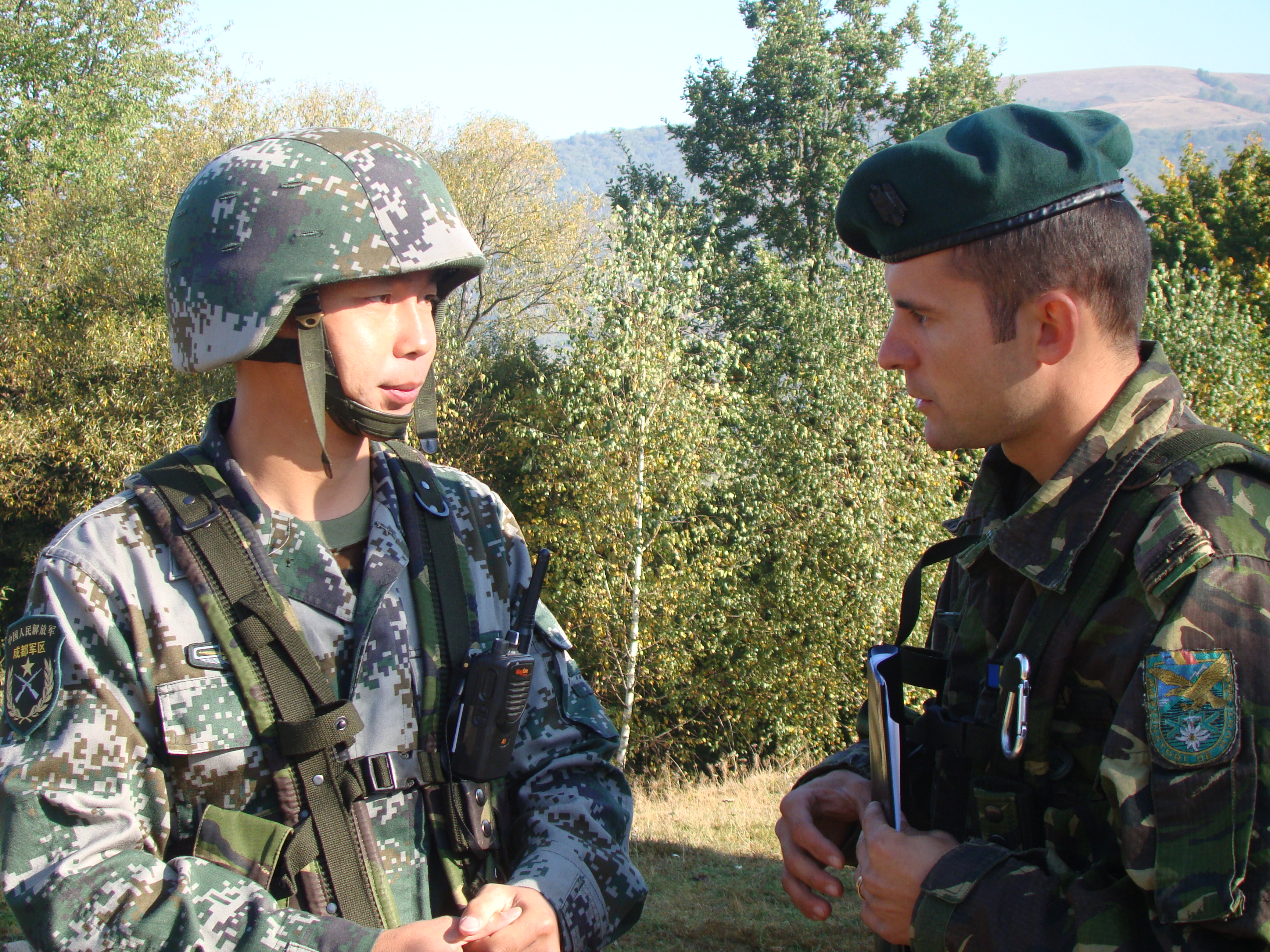 Sino-Romanian army mountain troops joint training "Friendship Action 2009".